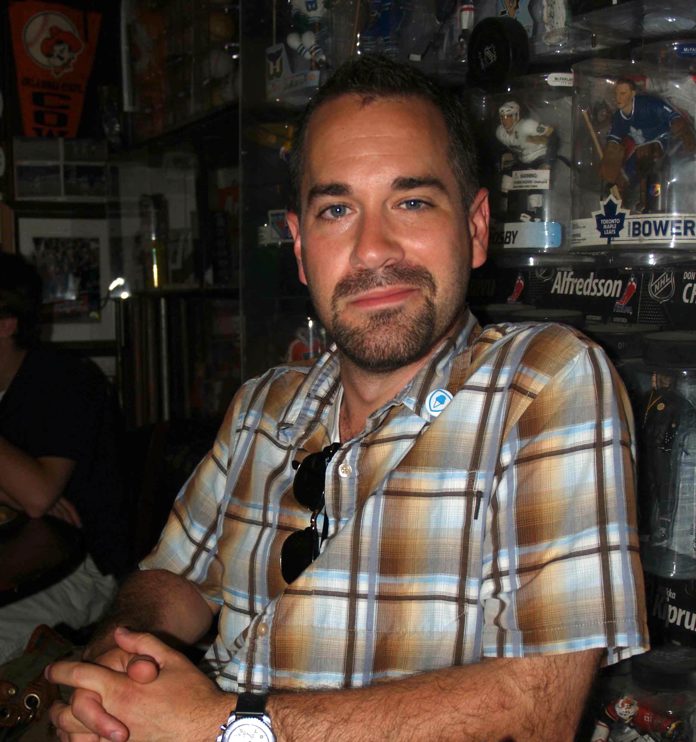 MTV and CNN correspondent Aaron Sagers at a June 27, 2013 press luncheon at Foley's NY Pub & Restaurant in Manhattan for the 25th anniversary of the 1988 film Eight Men Out, where he interviewed actors Michael Rooker and David Strathairn, who starred in the film. This photo was created by Luigi Novi. It is not in the public domain, and use of this file outside of the licensing terms is a copyright violation.